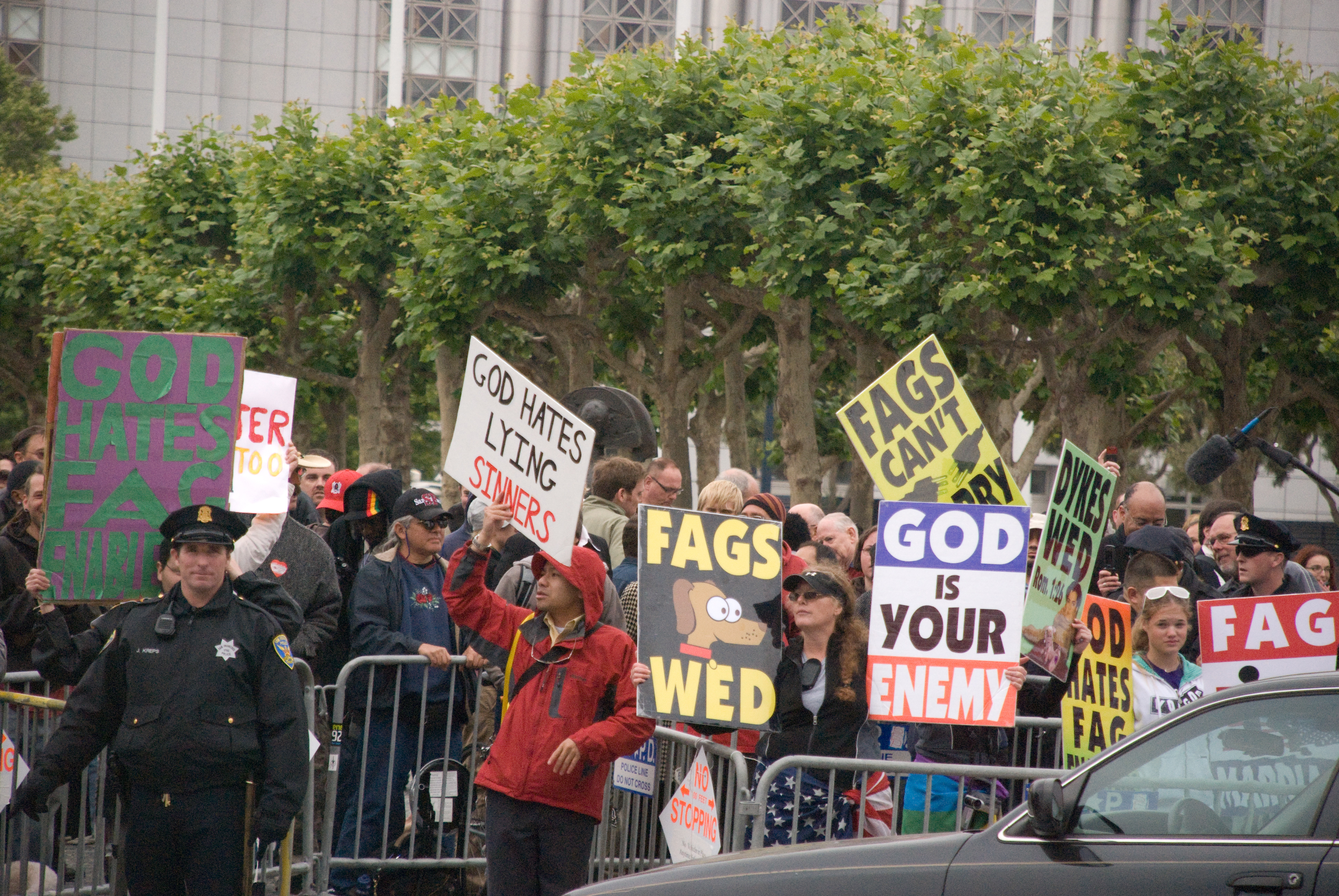 It´s amazing how in this country people with extremely different views can mix togheter in protests and mobs without anybody getting killer or seriously injured. (comment: not always, and lets see this group march through the castro at midnight...)